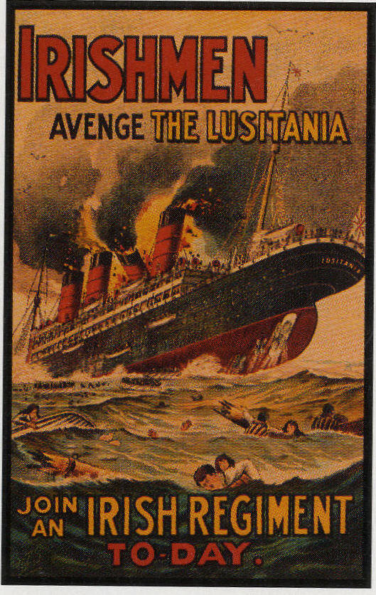 World War I Irish recruitment poster: "Irishmen Avenge the Lusitania -- Join an Irish Regiment Today"